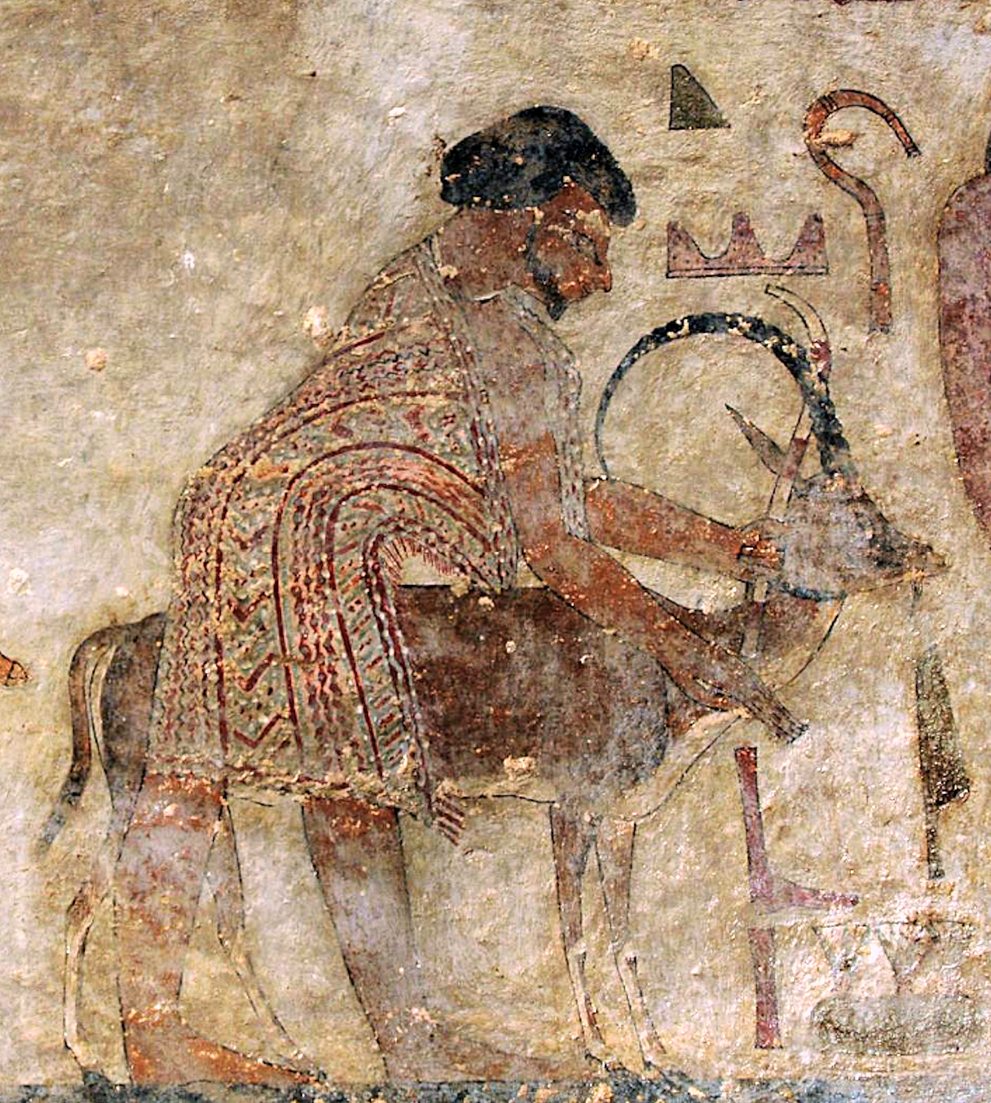 Painting of foreign delegation in the tomb of Khnumhotep II circa 1900 BCE (detail of "Abisha the Hyksos")